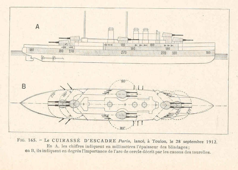 French battleship Paris